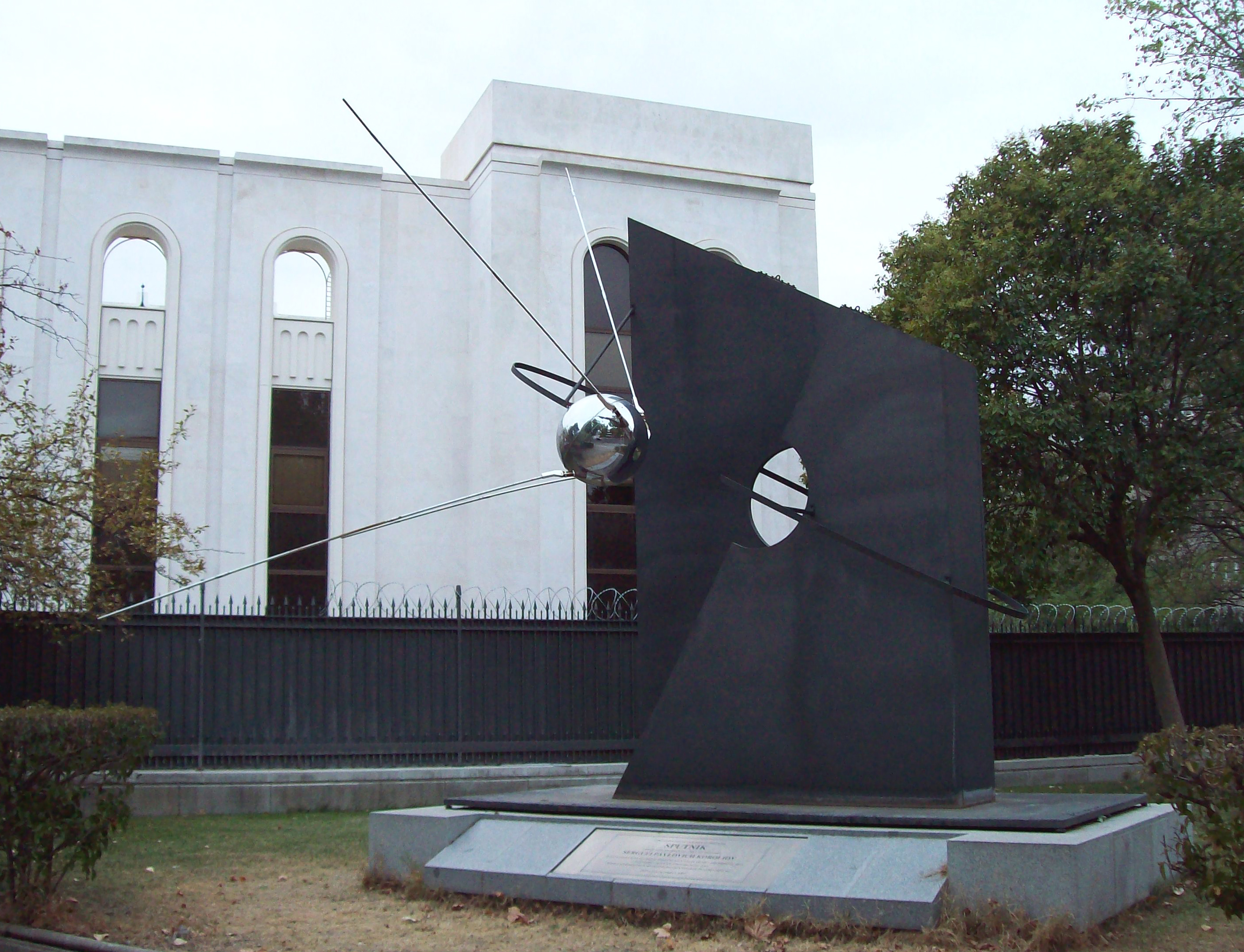 Real-size replica of Sputnik-1 beside Russian Embassy in Madrid (Spain). Unveiled on June 12, 2008, by Madrid's City Council, INTA, INSA company, the Mayor of Moscow (Yuri Luzhkov) and Russian ambassador in Madrid (Alexander Kuznetsov).